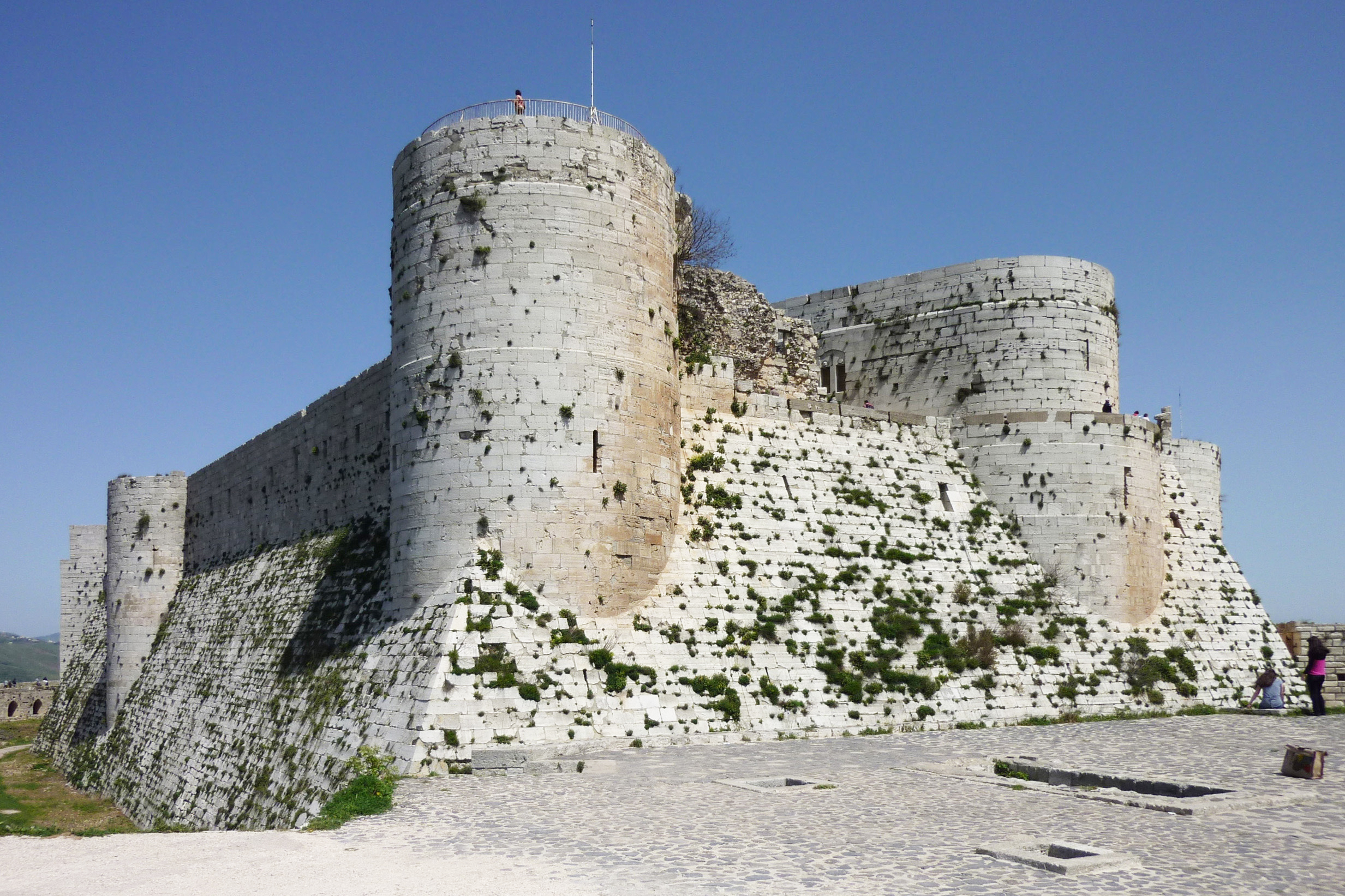 Southern part of inner wall of Krak des Chevaliers, Syria